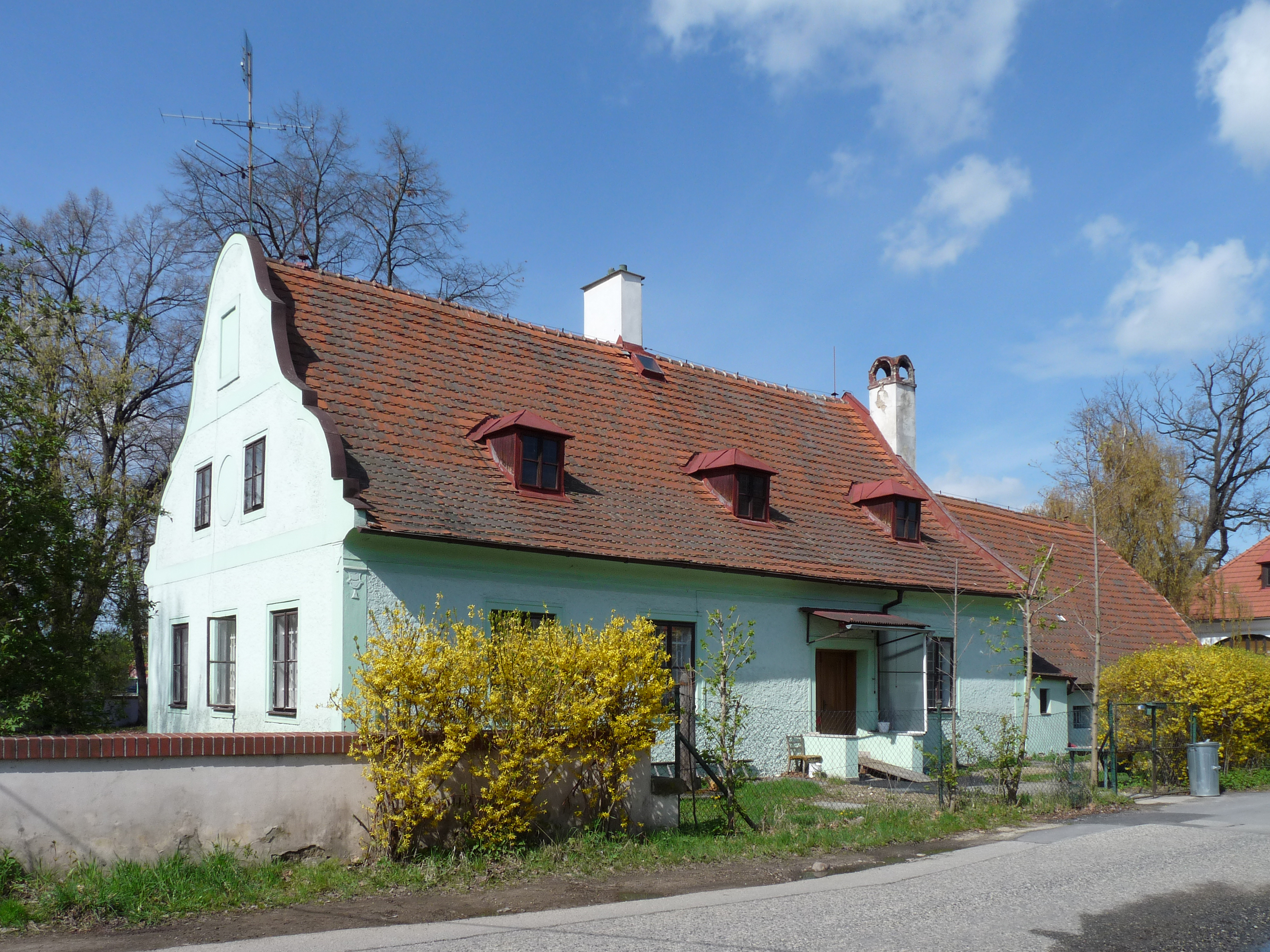 House where Adalbert Lanna (1805–1866) was born, České Budějovice, Czech Republic.